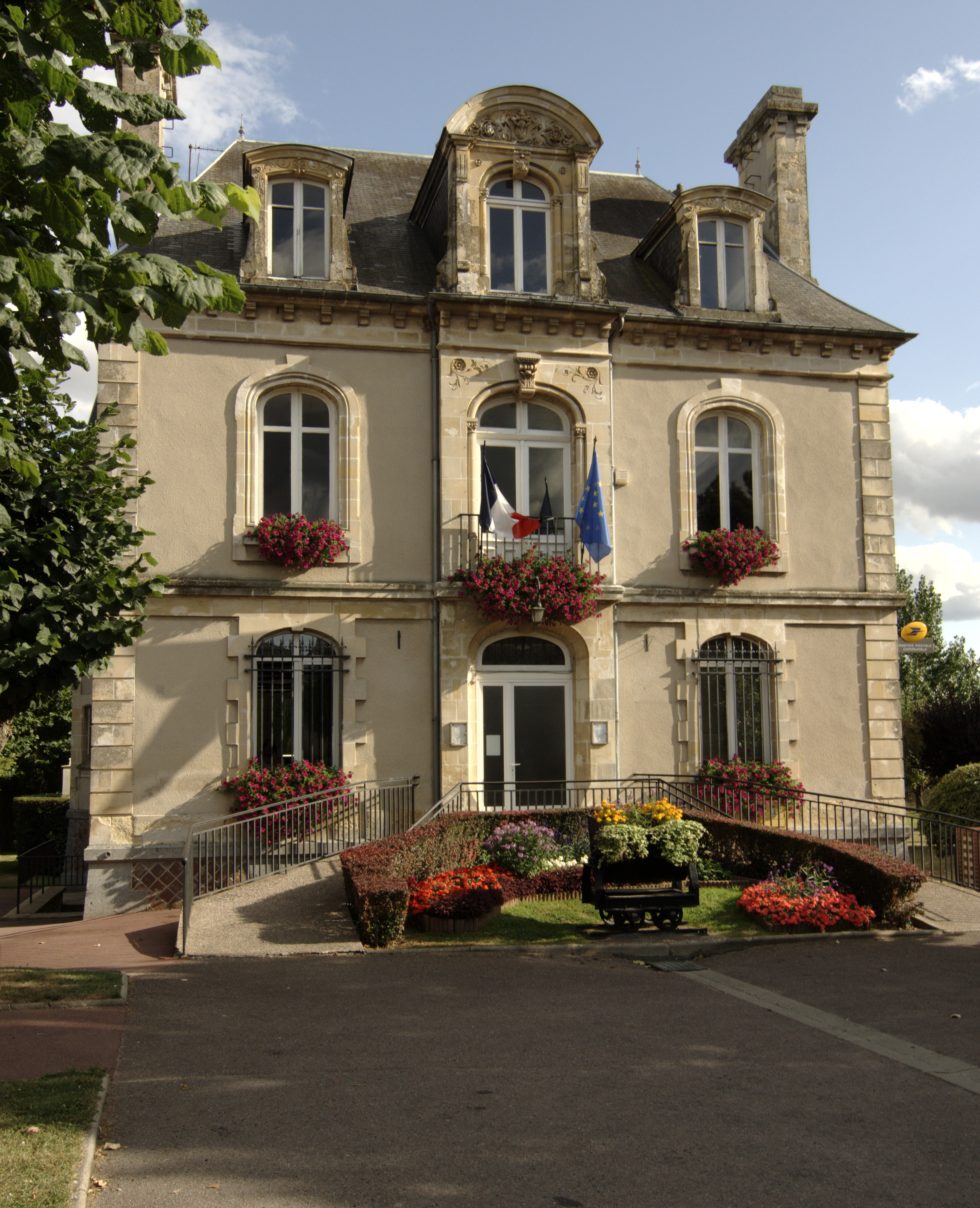 Town hall of Fontenay-le-Marmion (Calvados, France)